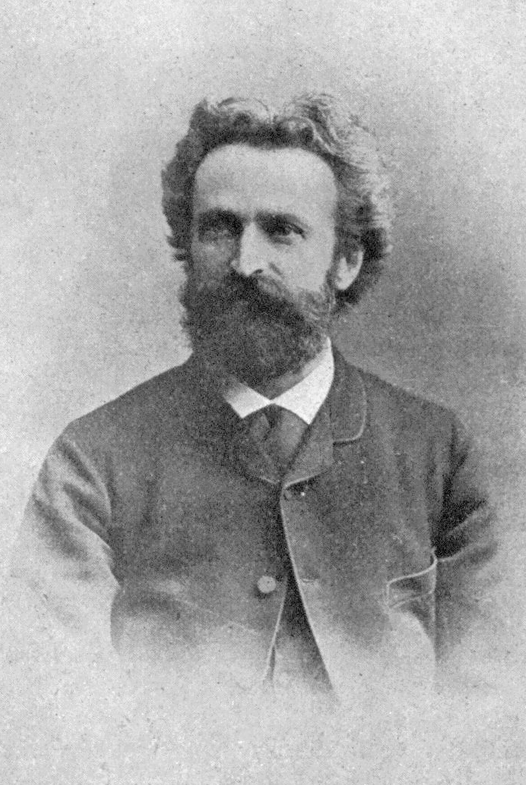 Viktor von Miller zu Aichholz (1845–1910), Austrian industrialist, numismatist and patron of composer Johannes Brahms